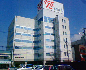 Yoshida Sangyo Corporation Head Office(YS-Building)